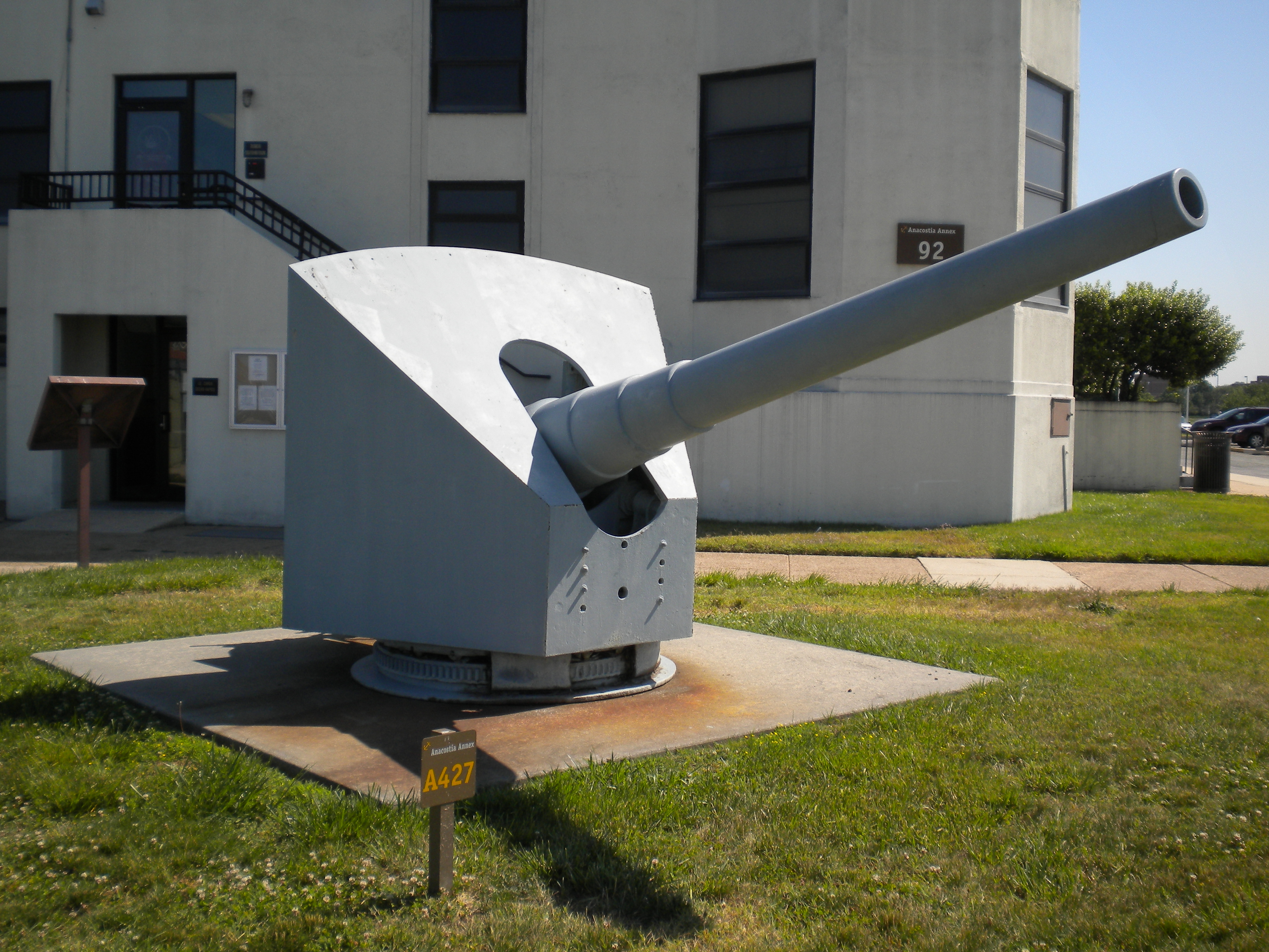 Hontoria 140mm Naval Gun at Naval Support Facility Anacostia, Washington, D.C. The plaque next to this gun reads: "THE GUN This Hontoria 140mm (5.5 in) naval gun was taken from the Spanish cruiser ALMIRANTE OQUENDO following her capture at the Battle of Santiago at Cuba on 3 July 1898 during the Spanish American War. ALMIRANTE OQUENDO, of the INFANTA MARIA TERESA class, was one of six Spanish ships which sortied from the Cuban port in order to avoid capture in the harbor. None escaped the blockading U.S. Naval Squadron. The hole in the gun’s shield was inflicted by one of approximately 50 rounds which hit ALMIRANTE OQUENDO. The gun was restored by sailors of Processing Division and General Detail, Naval District Washington during 1982 and 1983."